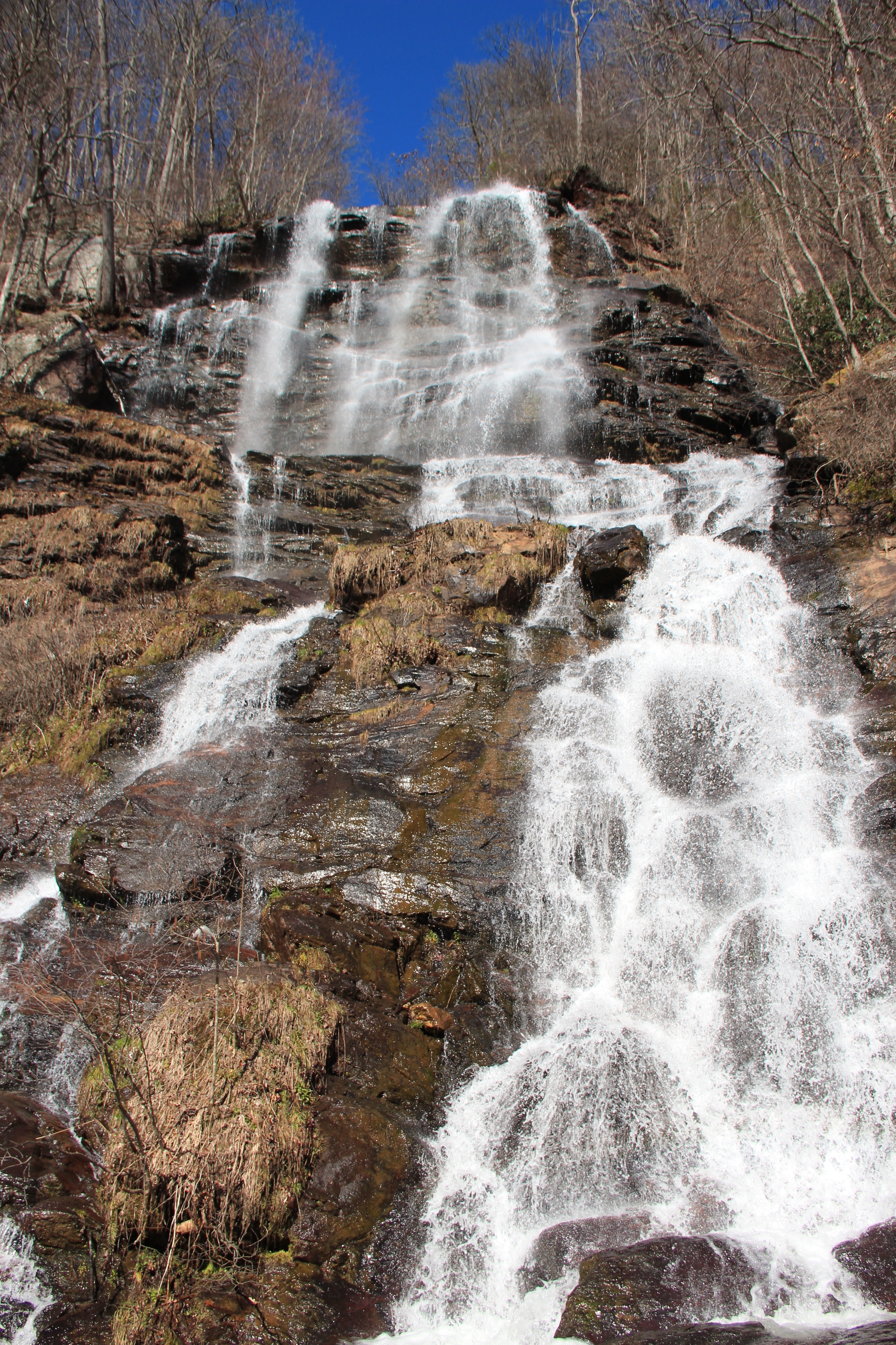 Amicalola Falls State Park, Georgia, USA